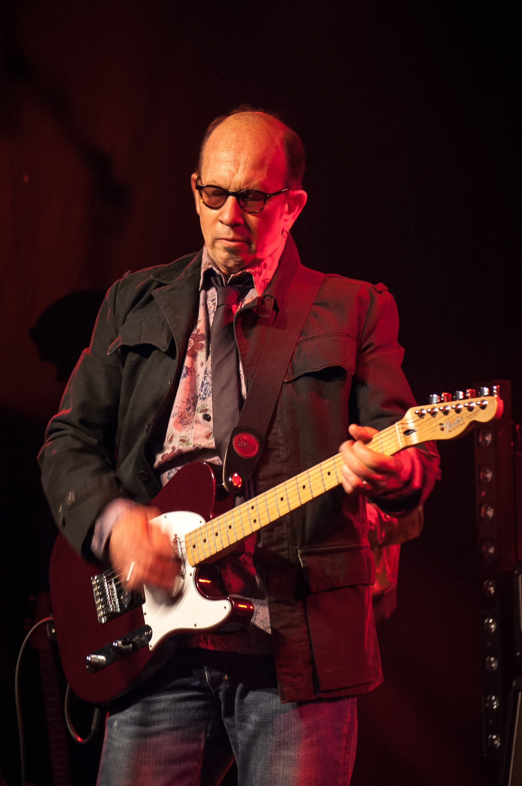 Chris Thompson at Rootsfestivalen in Brønnøysund, July 2008